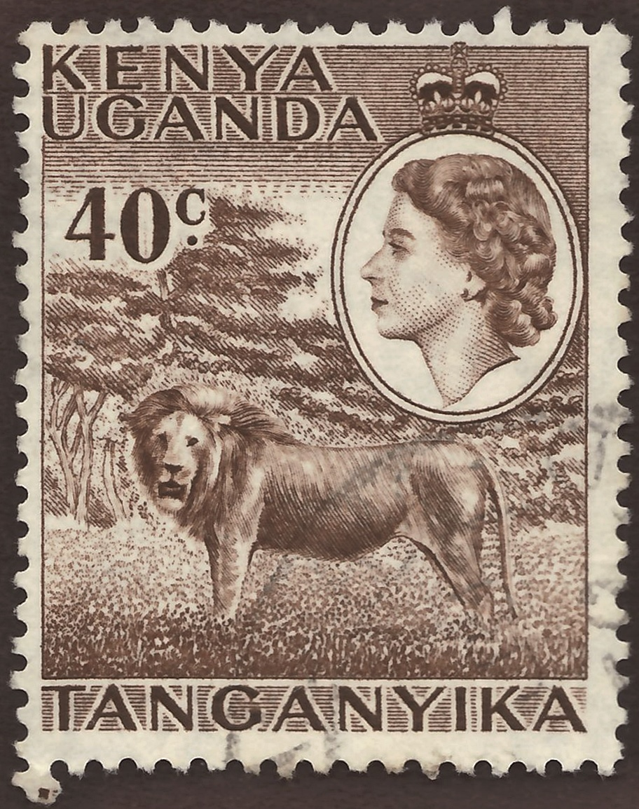 Stamp of British East Africa - KUT ("KUT" = the British colony "Kenya", the British protectorate "Uganda", and the British mandate area "Tanganyika"); 1958; definitive stamp of the issue "Local motives - Queen Elizabeth II of the United Kingdom"; stamp drawing with a lion ("Panthera leo") before tropical savannah forest landscape under a cameo portrait of Queen Elizabeth II of the United Kingdom with view to left in oval with crown; stamp postmarked Stamp: Michel: No. 97; Yvert et Tellier EA 93A; Scott: No. 109 Color: brown Watermark: British East Africa No. 4 (= Great Britain No. 4) (multiple Saint Edward's crown over convoluted charcters "CA") Nominal value: 40 C (Cents) Postage validity: from 28 March 1958 until ? Stamp picture size (printed area): 24.0 x 30.5 mm